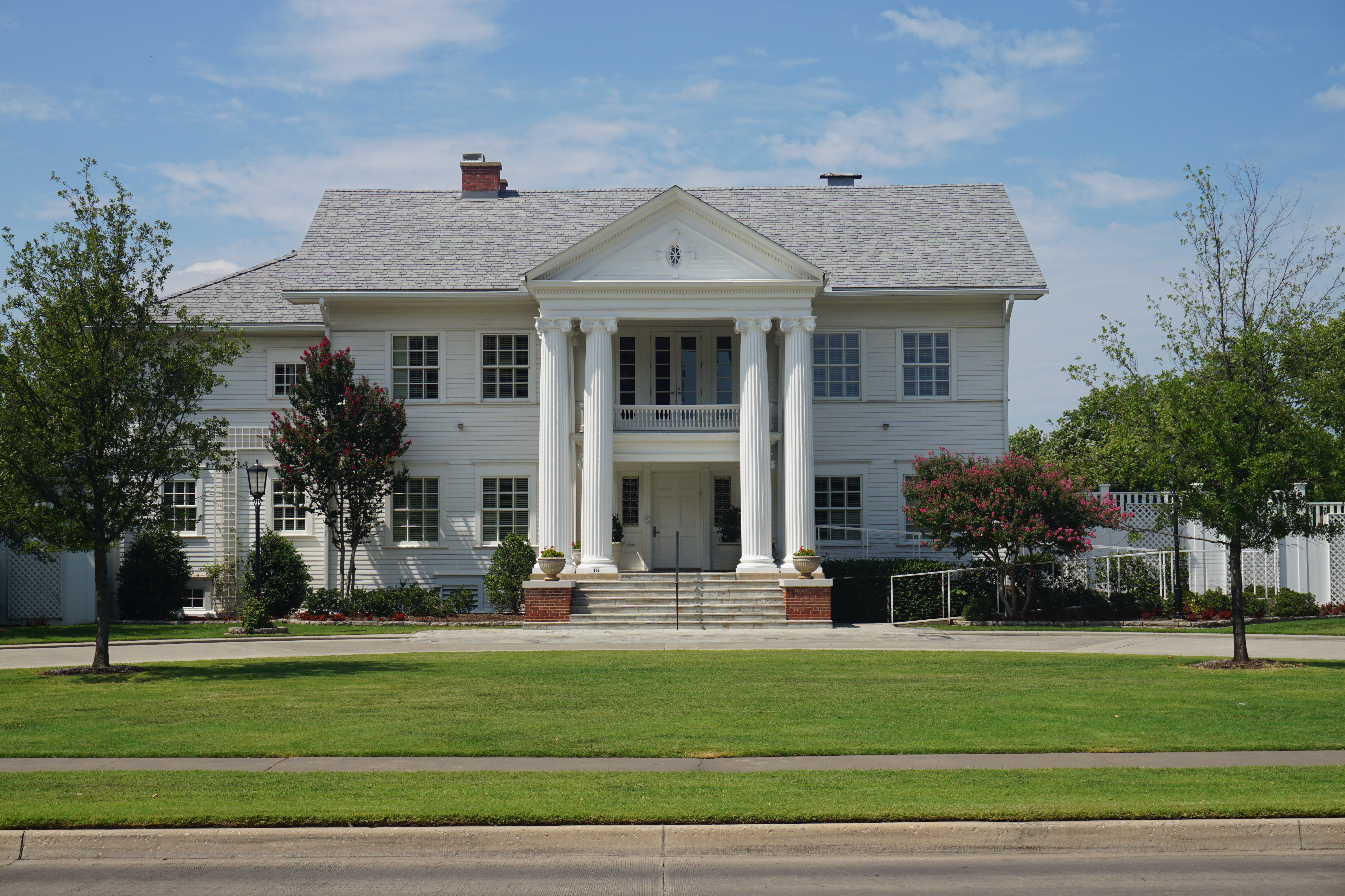 The President's House on the campus of the University of Oklahoma in Norman, Oklahoma (United States).